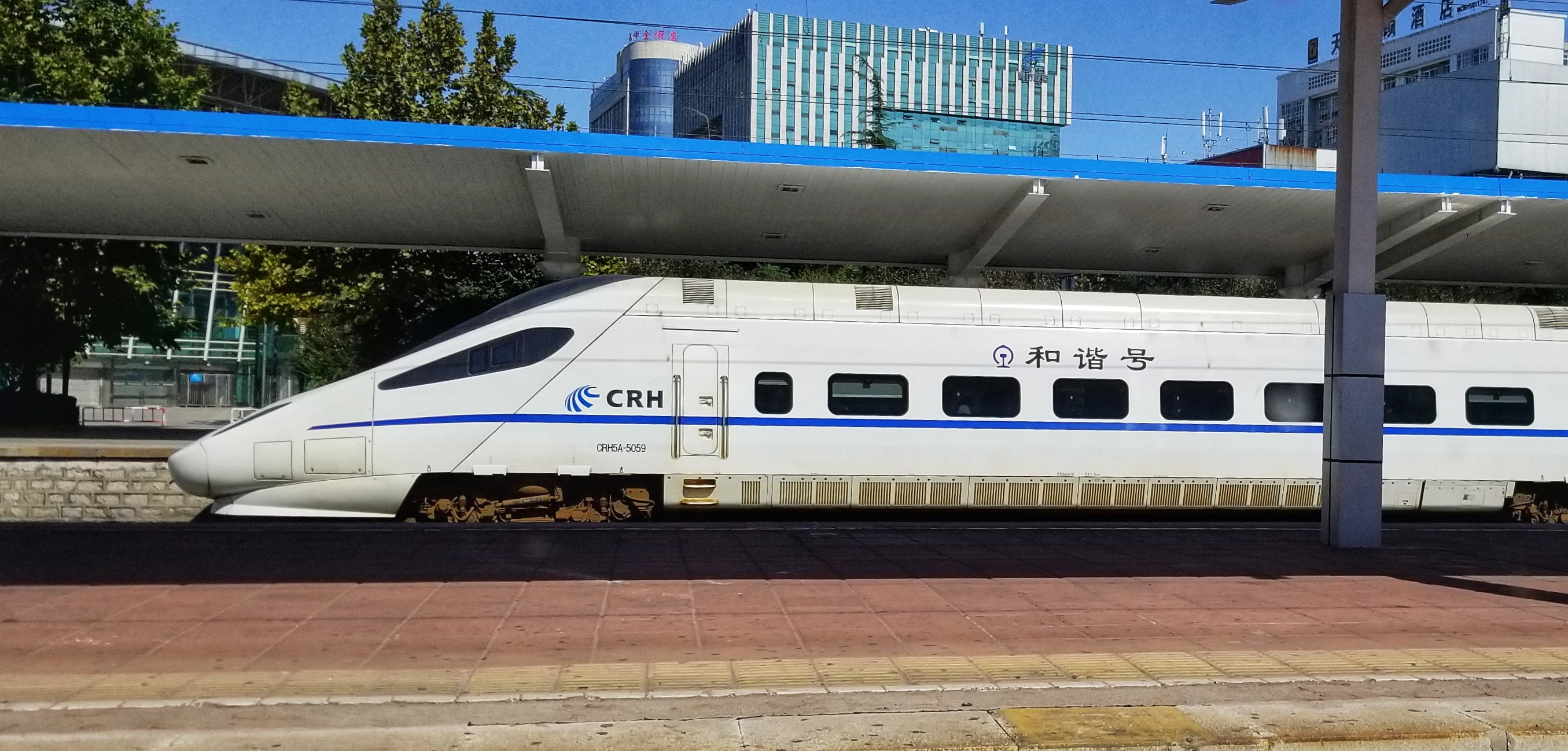 CRH High Speed Rail